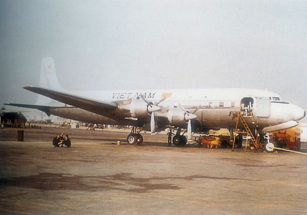 Douglas DC-6B VIP Transport - SVNAF 314th Special Missions Squadron - Tan Son Nhut Air Base Source: United States Air Force Historical Research Agency - Maxwell AFB, Alabama